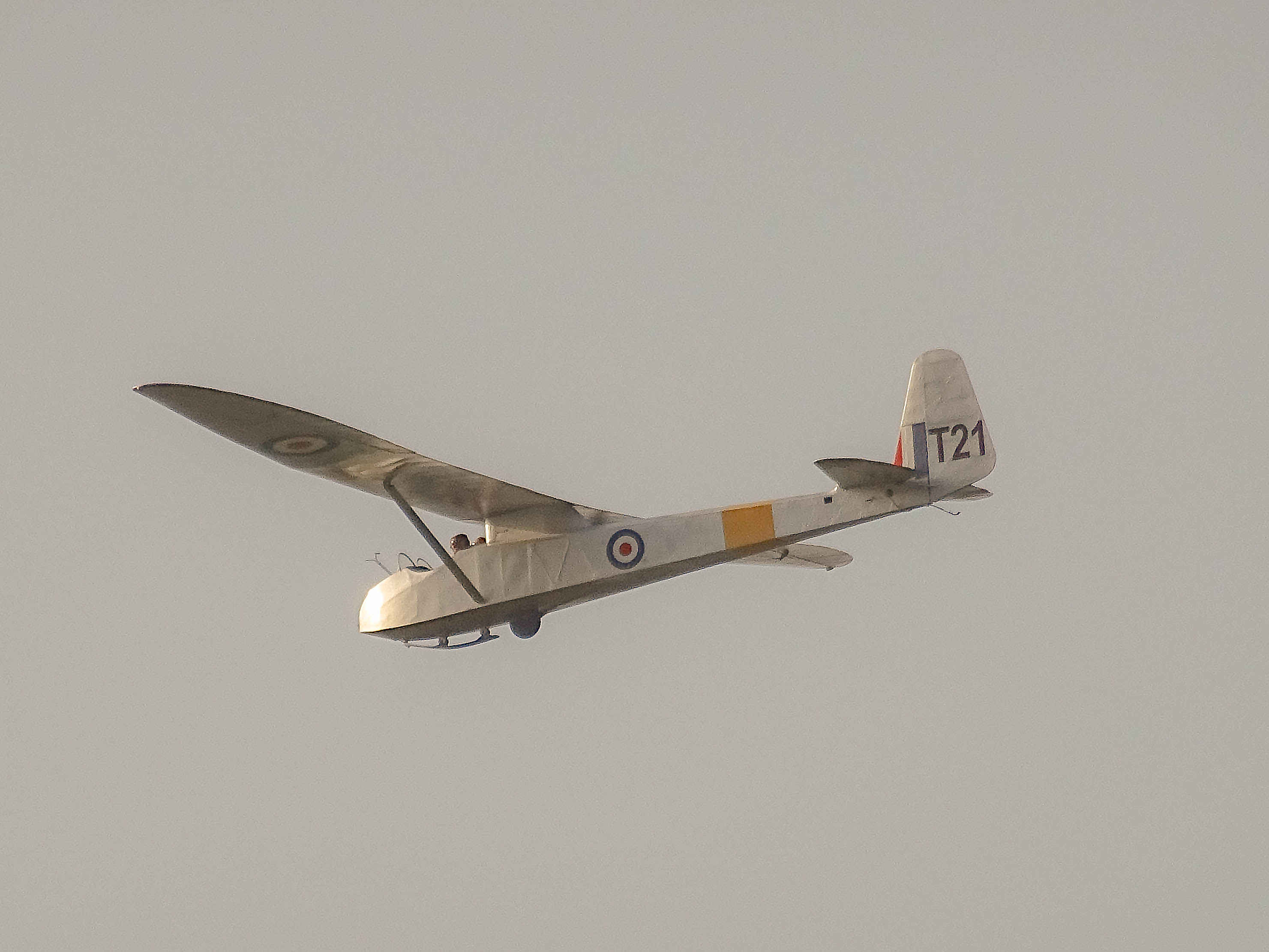 Slingsby T.21 at Husbands Bosworth